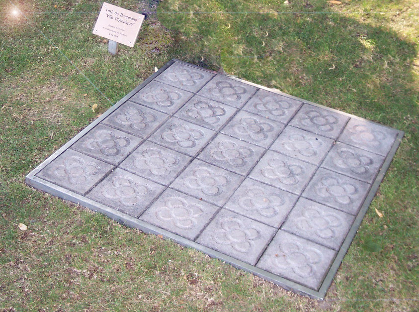 A meter square of Barcelona olympic's village sidewalk (Olympic Museum, Lausanne, Switzerland)